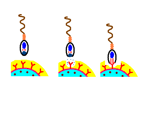 This diagram represents the digestion of the egg cell's jelly coat by the sperm acrosome's release of hydrolytic enzymes, the attachment of spern membrane receptors to egg cell membrane receptors and the contraction of the sperm's actin fibers to pull the head of the sperm into the egg cell's membrane.